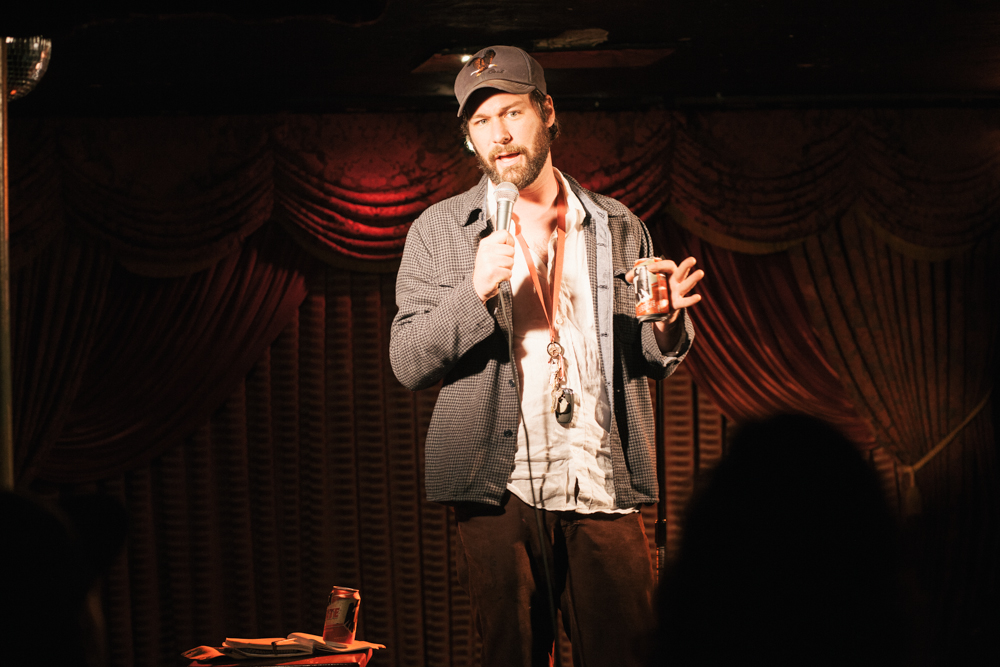 Canadian comedian Jon Dore at Not Safe For Work Presented by Comedy Central Produced by CleftClips Photography by Mandee Johnson / The Del Monte Speakeasy at Townhouse Venice - Los Angeles, CA June 4, 2013